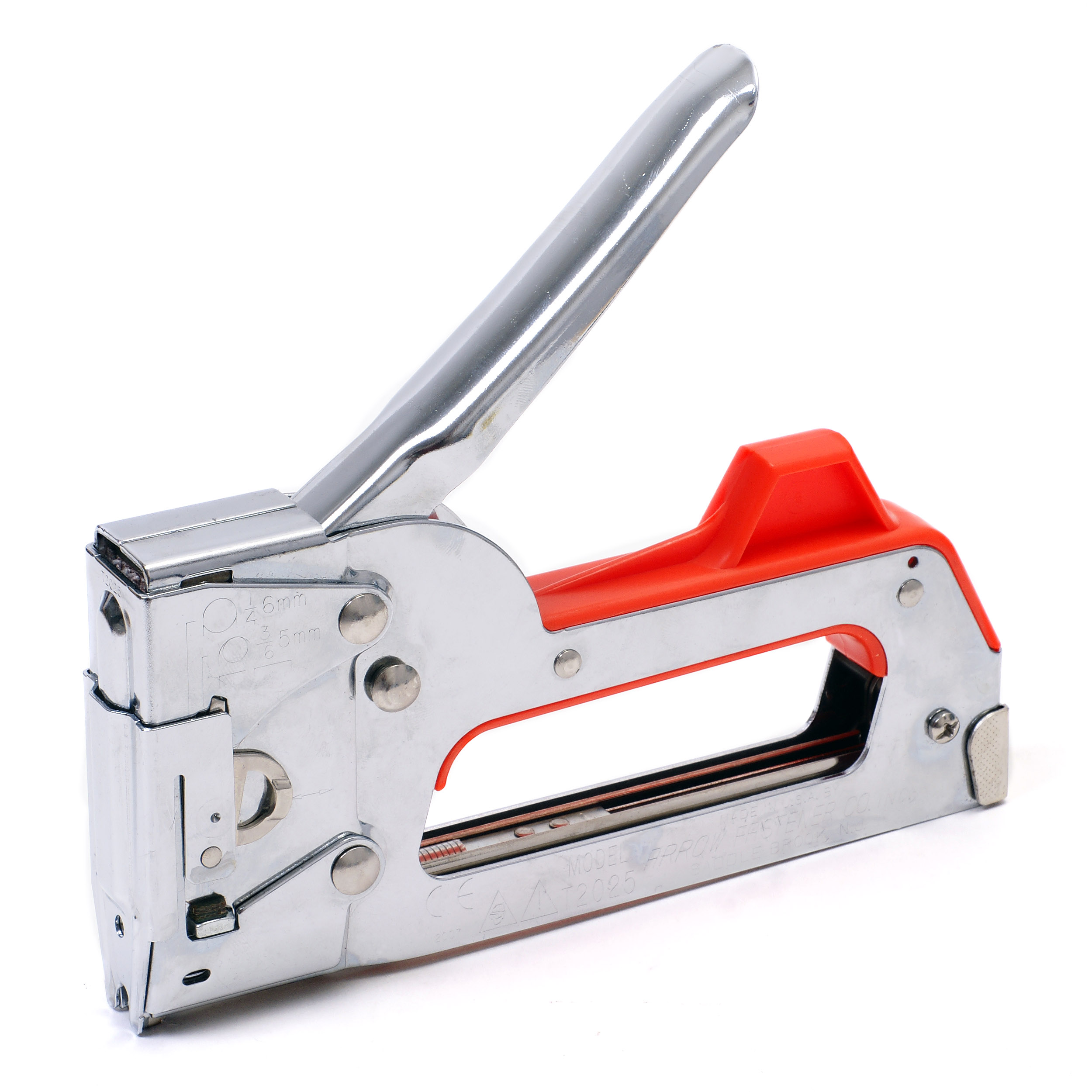 A hand tacker, used for carpentry, home repair and upholstery.